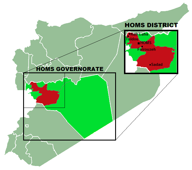 A map of Homs District, Homs Governorate, Syria with showing 5 most important cities.